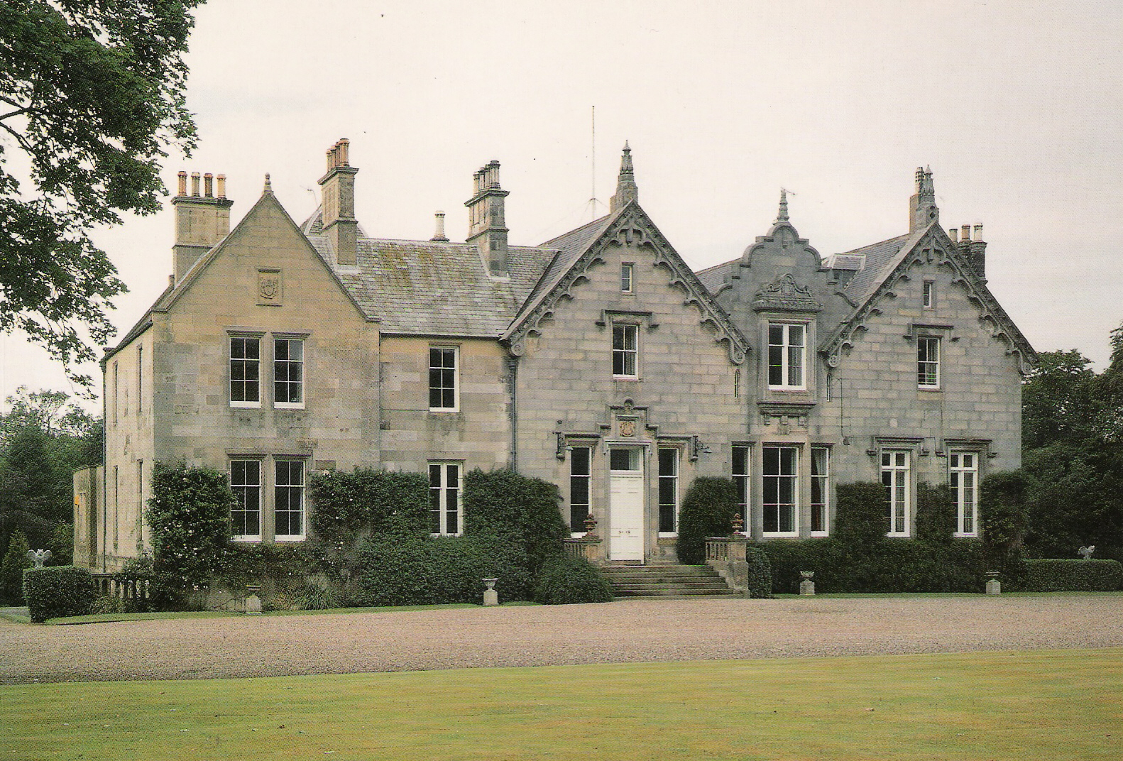 Ordinary photo. No copyright.